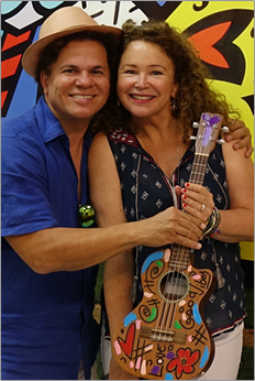 Romero Britto and Gail Edwards in Miami July 2016